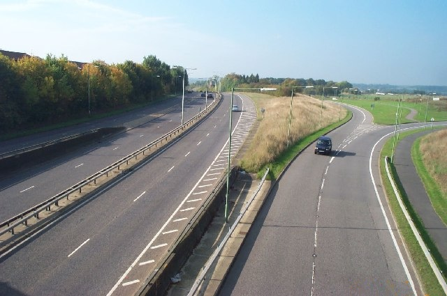 Leavesden Green: A41 North Western Avenue – Viewed looking westwards towards the Hunton Bridge roundabout from the Ashfields overbridge. The disused Leavesden Aerodrome, which is to the right, has been partially redeveloped for housing, and the rest is now Leavesden Film Studios. One of the ventilation shafts for the Watford main line railway tunnels is just (!) visible between the lamp posts on the central reservation.